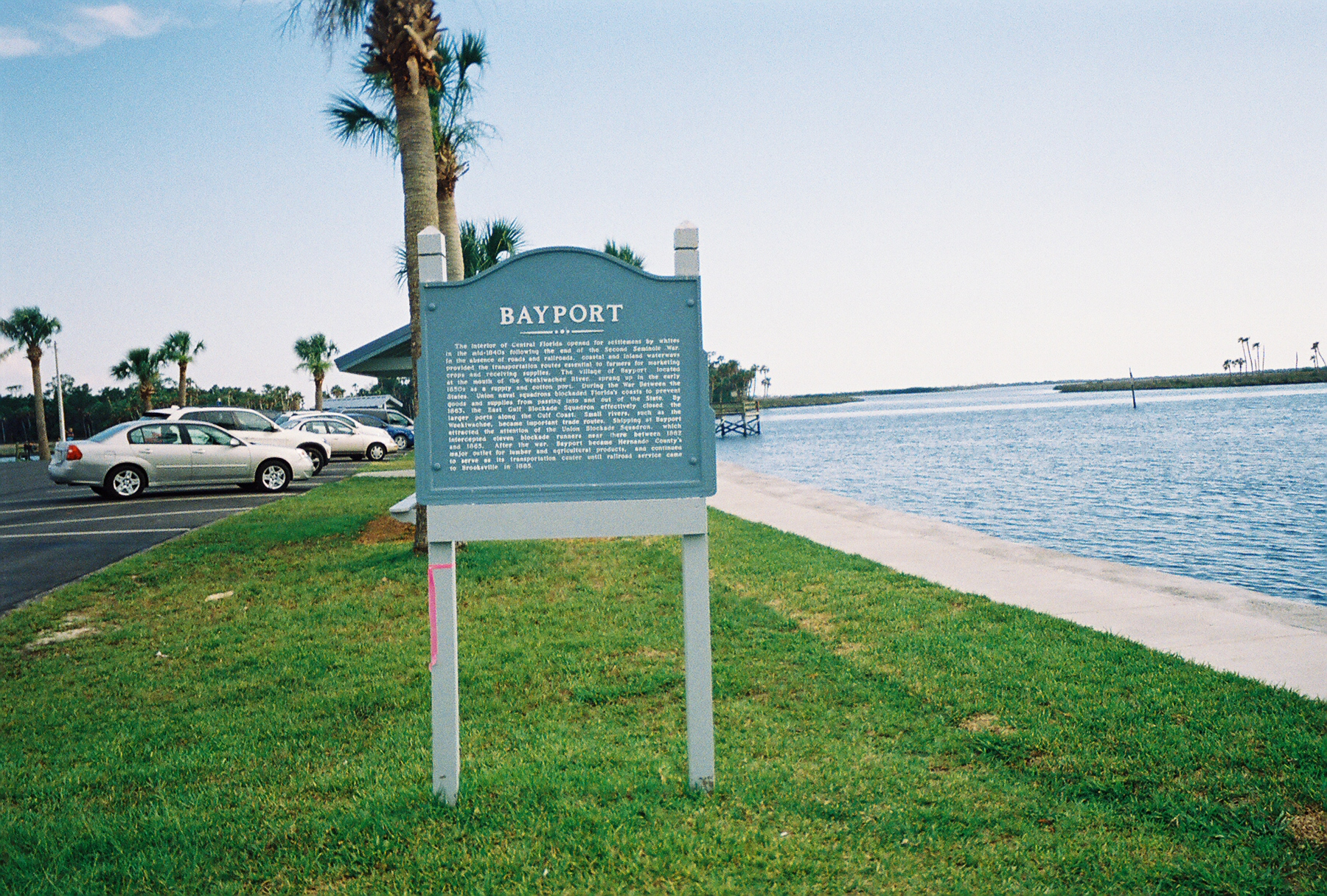 Closer image of the Historic Plaque at the end of Hernando County Road 550 in Bayport, Florida